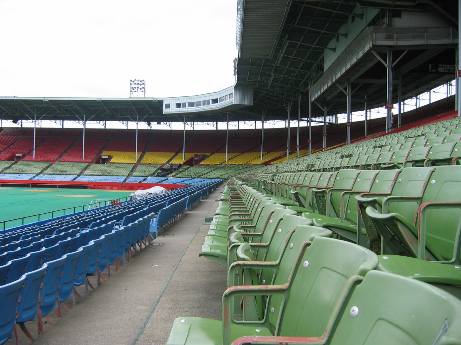 Football & Basketball Facilities Louisville Fairgrounds Baseball Park